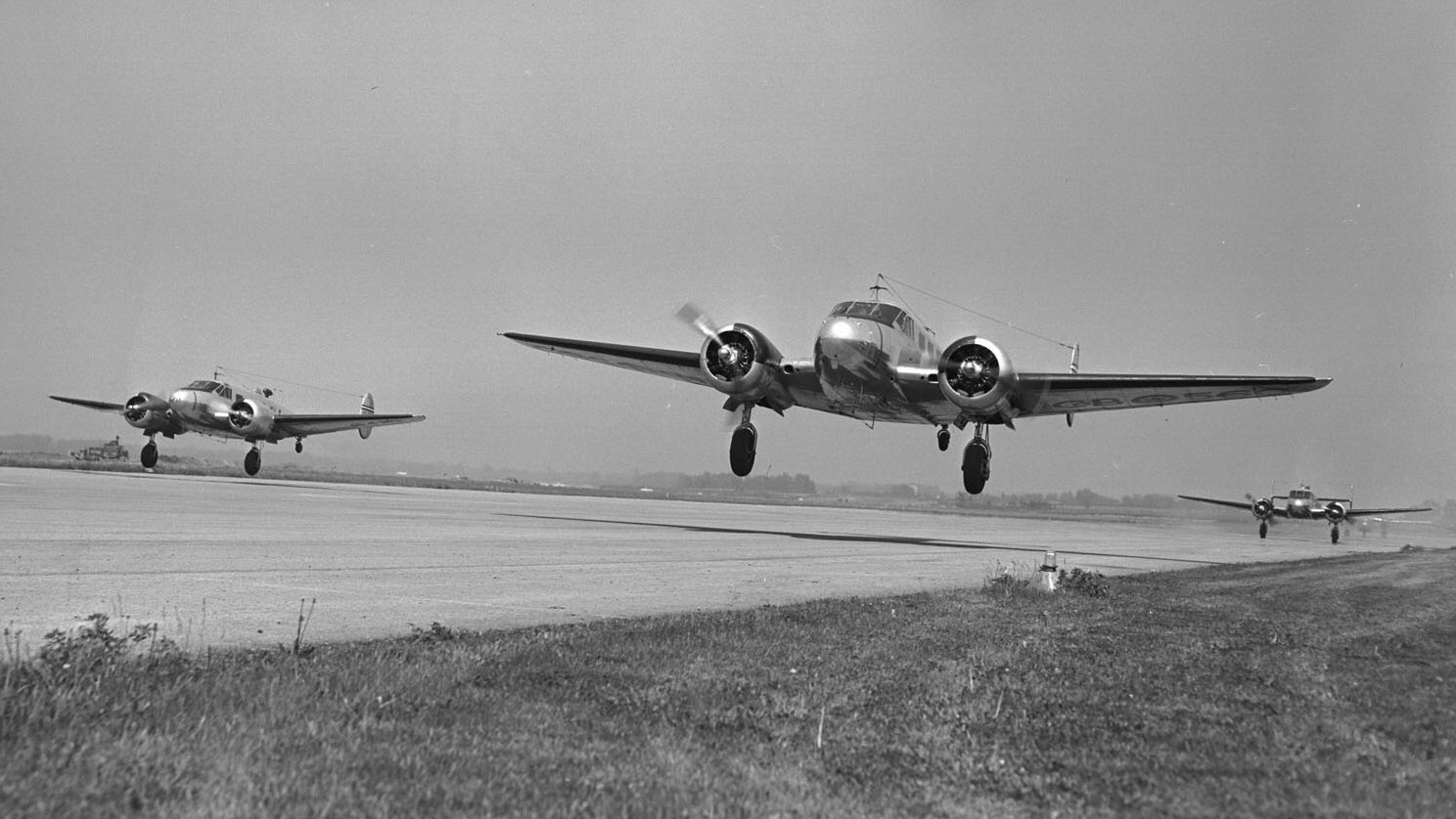 RCAF Expeditors taking off